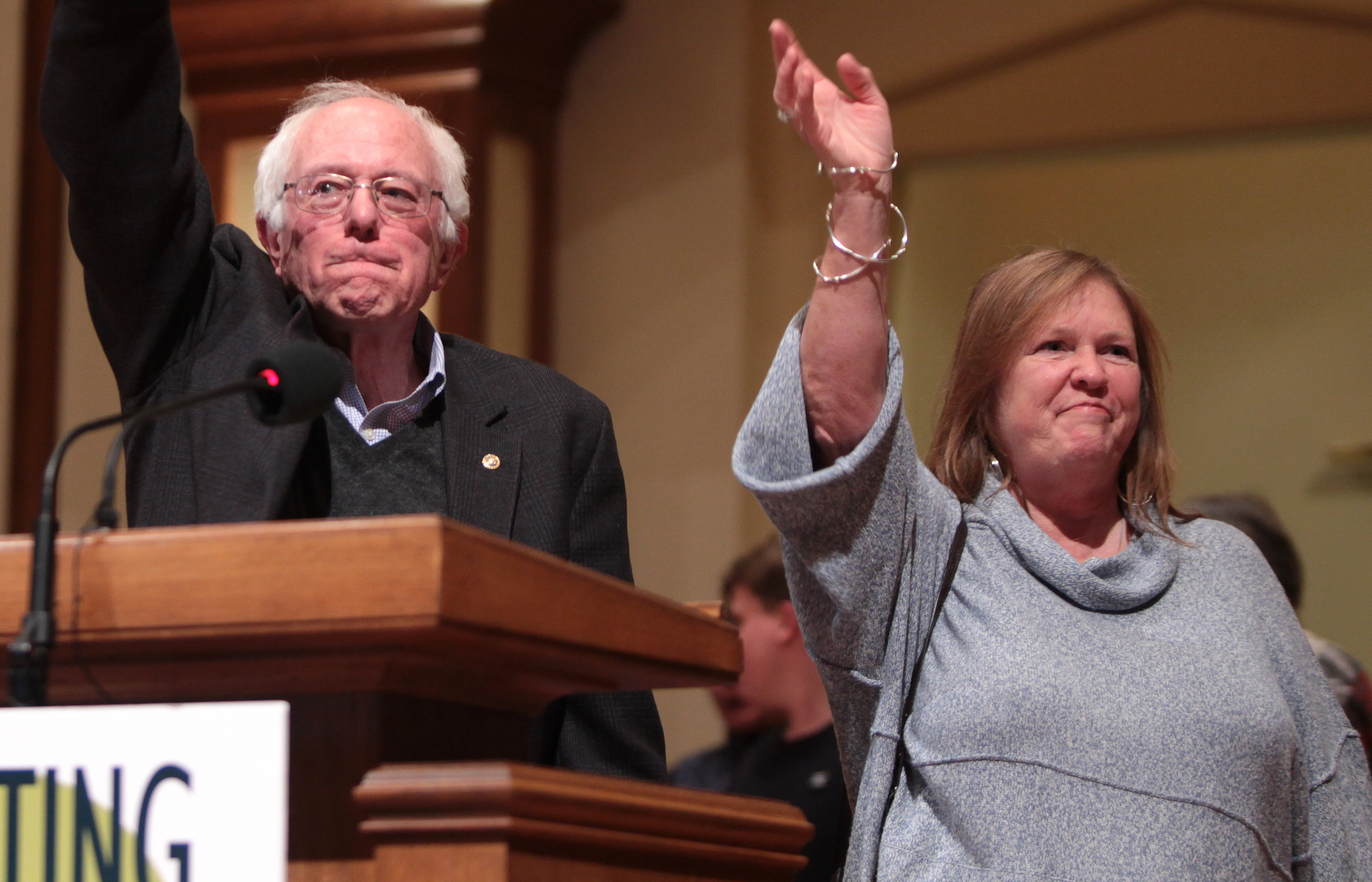 U.S. Senator Bernie Sanders, and his wife Jane Sanders, speaking with supporters at the Putting Families First Presidential Forum hosted by the CCI Action Fund at the First Christian Church in Des Moines, Iowa.